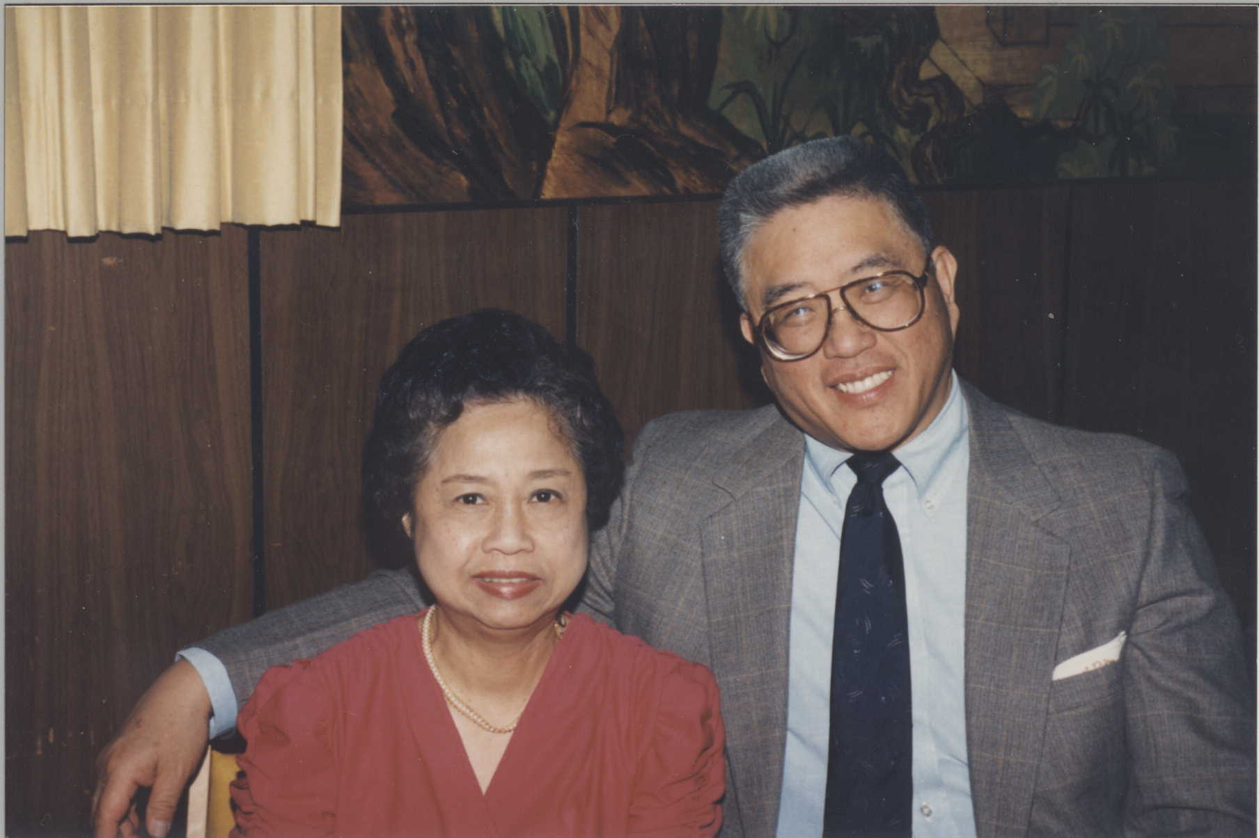 Source = personal photo of the Tom family, used by permission